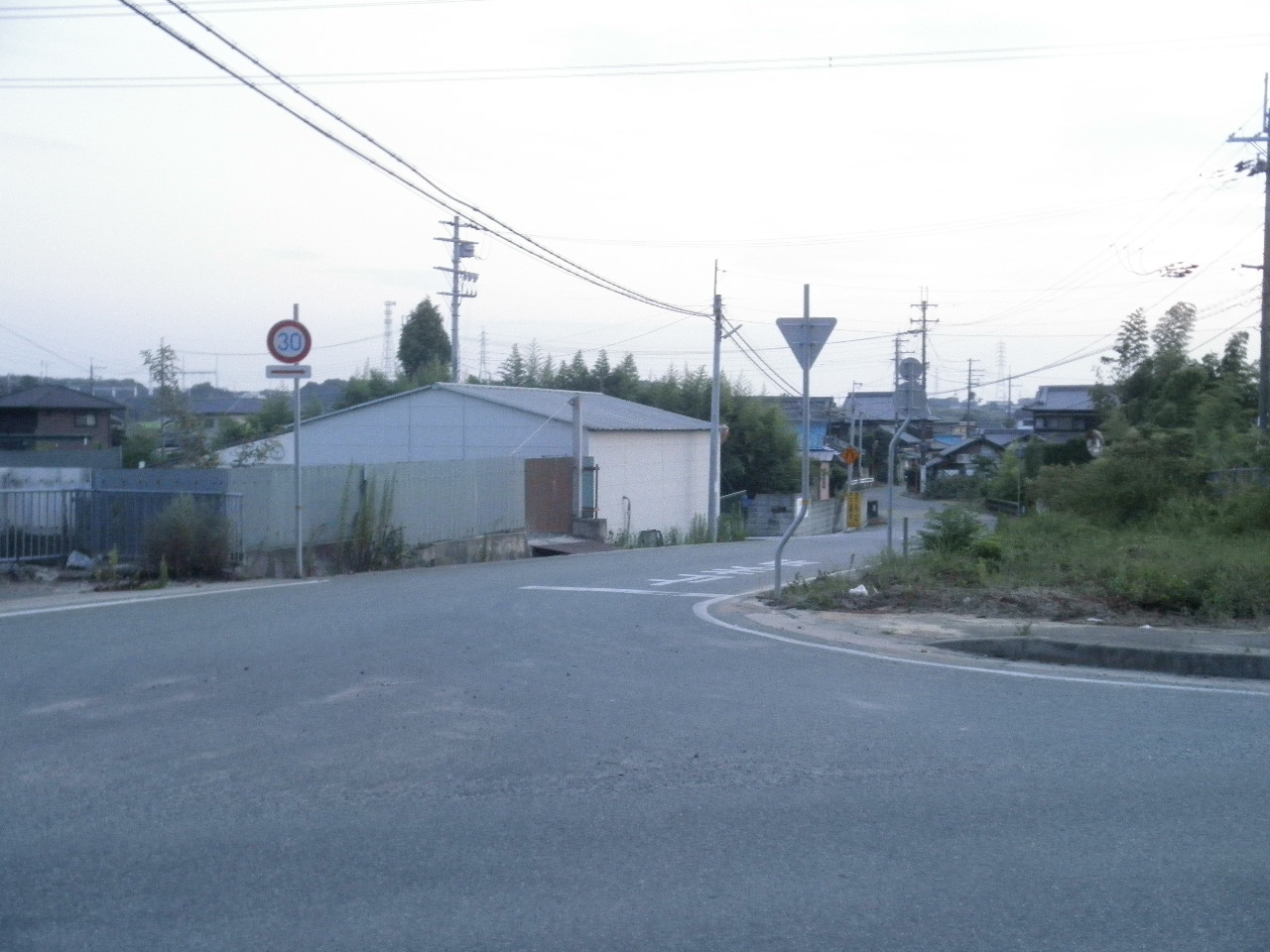 Kusadani Inamitown Hyogopref Hyogoprefectural road 377 Nomura Akashi Line